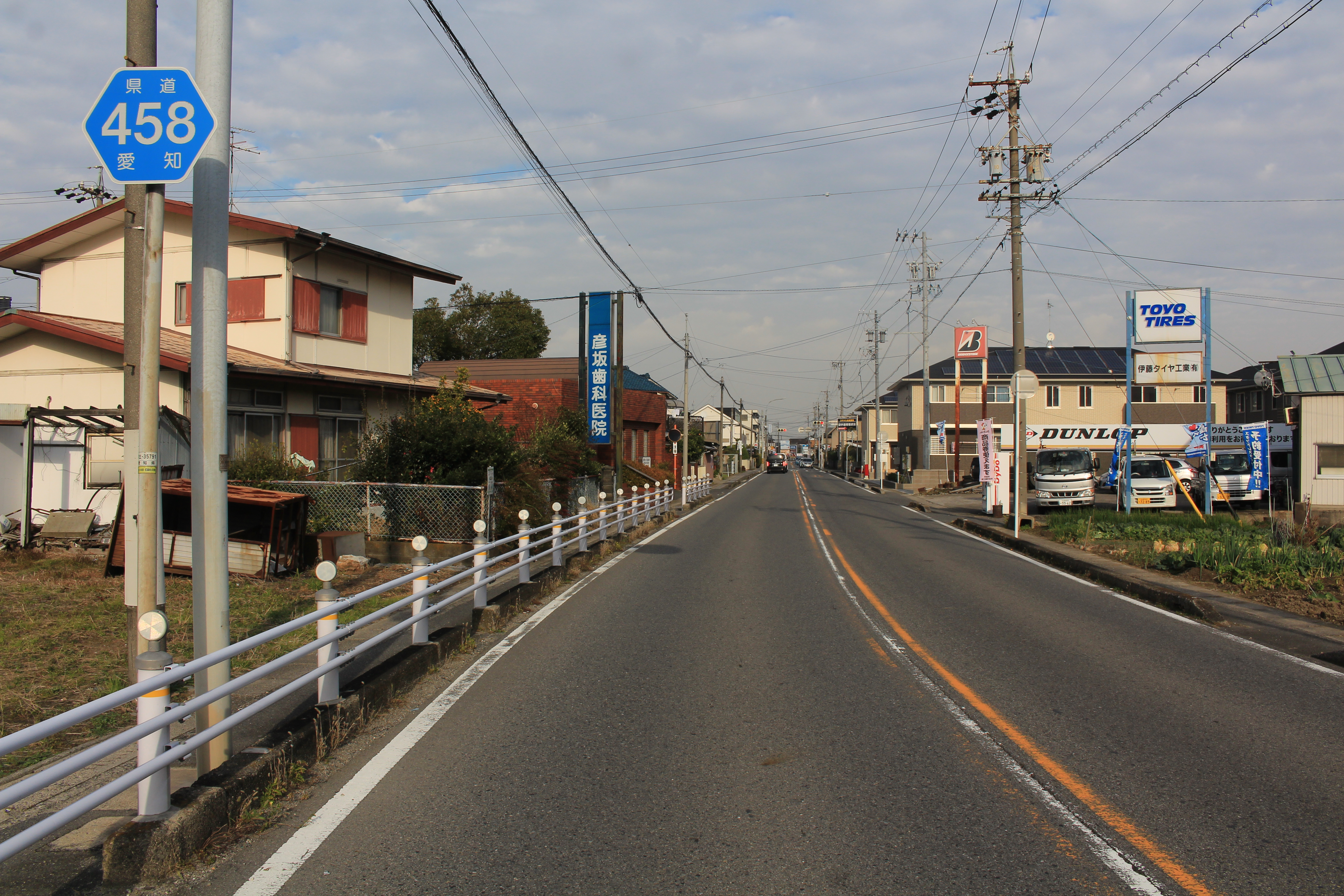 Aichi Prefectural Road Route 458 in Shimoshinden, Kojimacho, Yatomi, Aichi Prefecture, Japan.